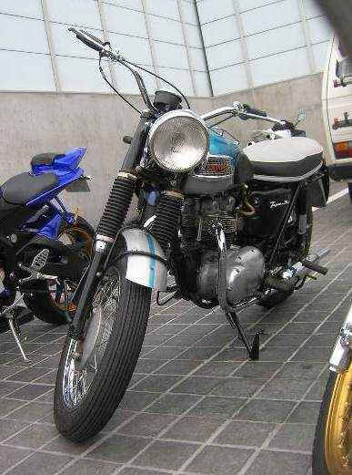 Unit 350cc engine in sports tune. Production ended in 1968.